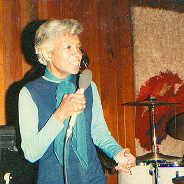 Jazz singer Maxine Sullivan at the Village Jazz Lounge in Walt Disney World. Photograph taken on October 9, 1975 in Lake Buena Vista, Florida.